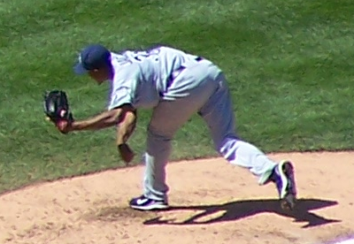 Edwin Jackson